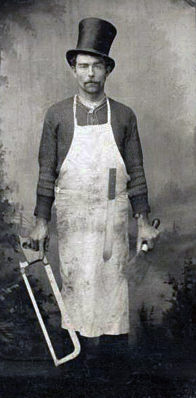 Butcher holding tools, tintype, circa 1875